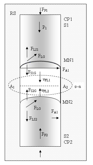 . Molecular power 16. Formation of thermodynamic Gibbs p-n transition in a vertical paired capillary